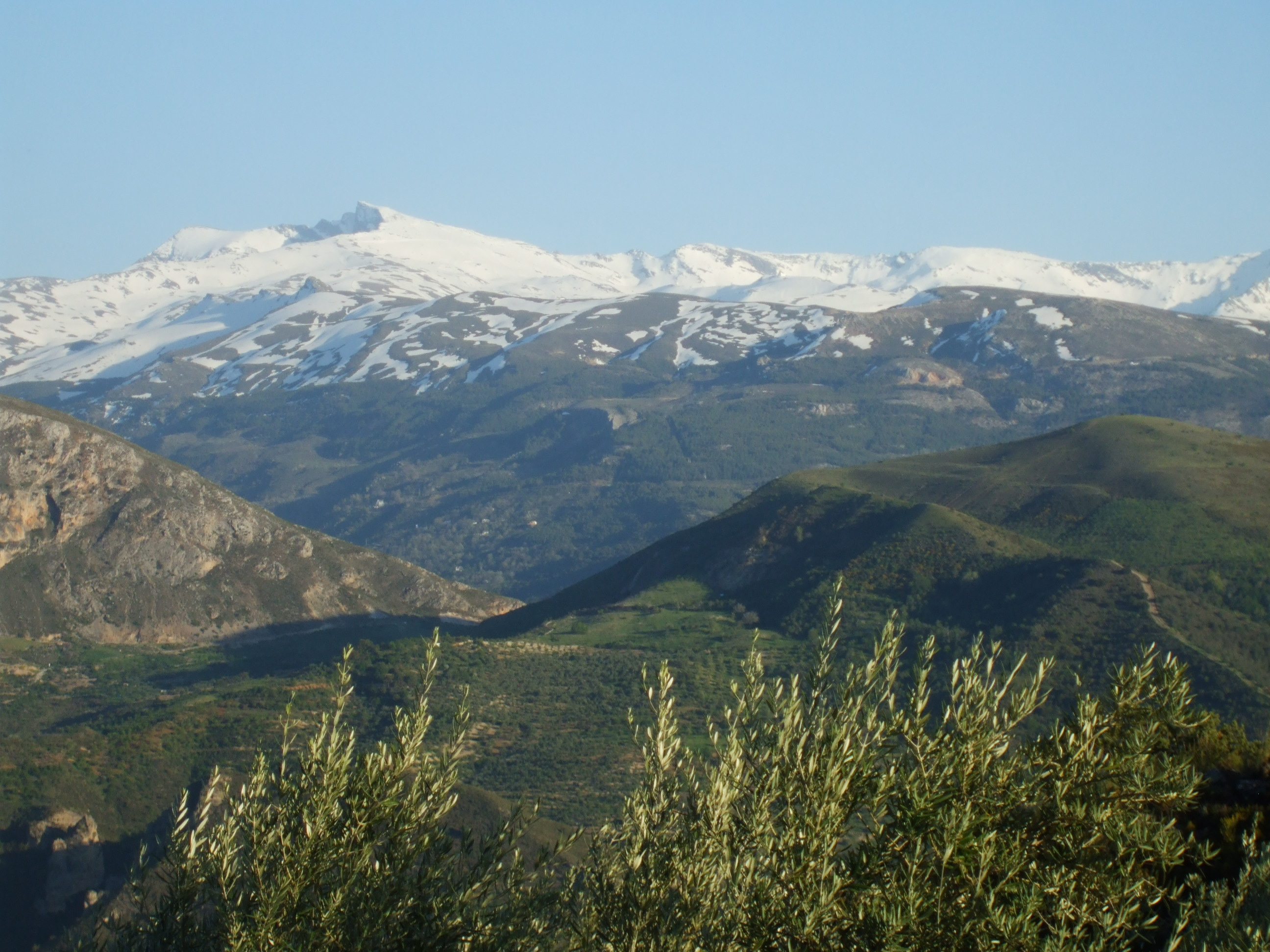 Pico del Veleta, Sierra Nevada, Spain